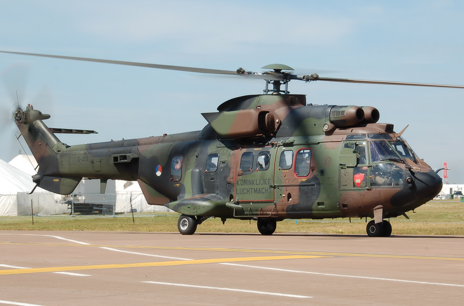 Eurocopter AS532U2 Cougar of the Royal Netherlands Air Force (military code S-419) at the 2010 Royal International Air Tattoo, Fairford, Gloucestershire, England.